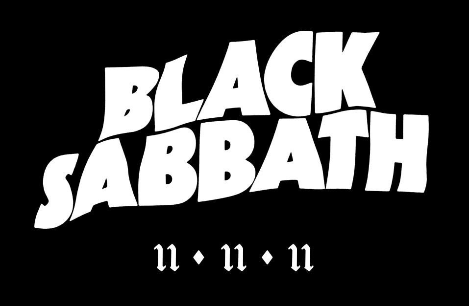 Logo of Black Sabbath reunion